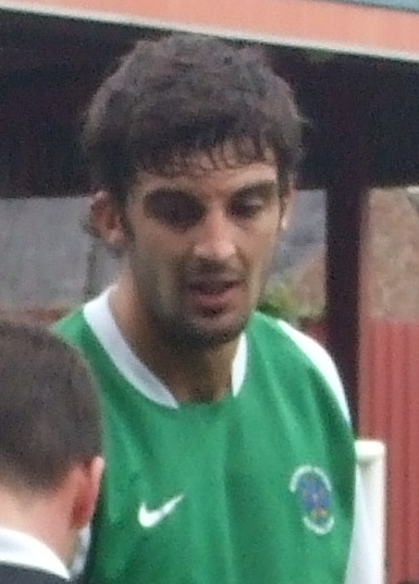 Mat Bailey